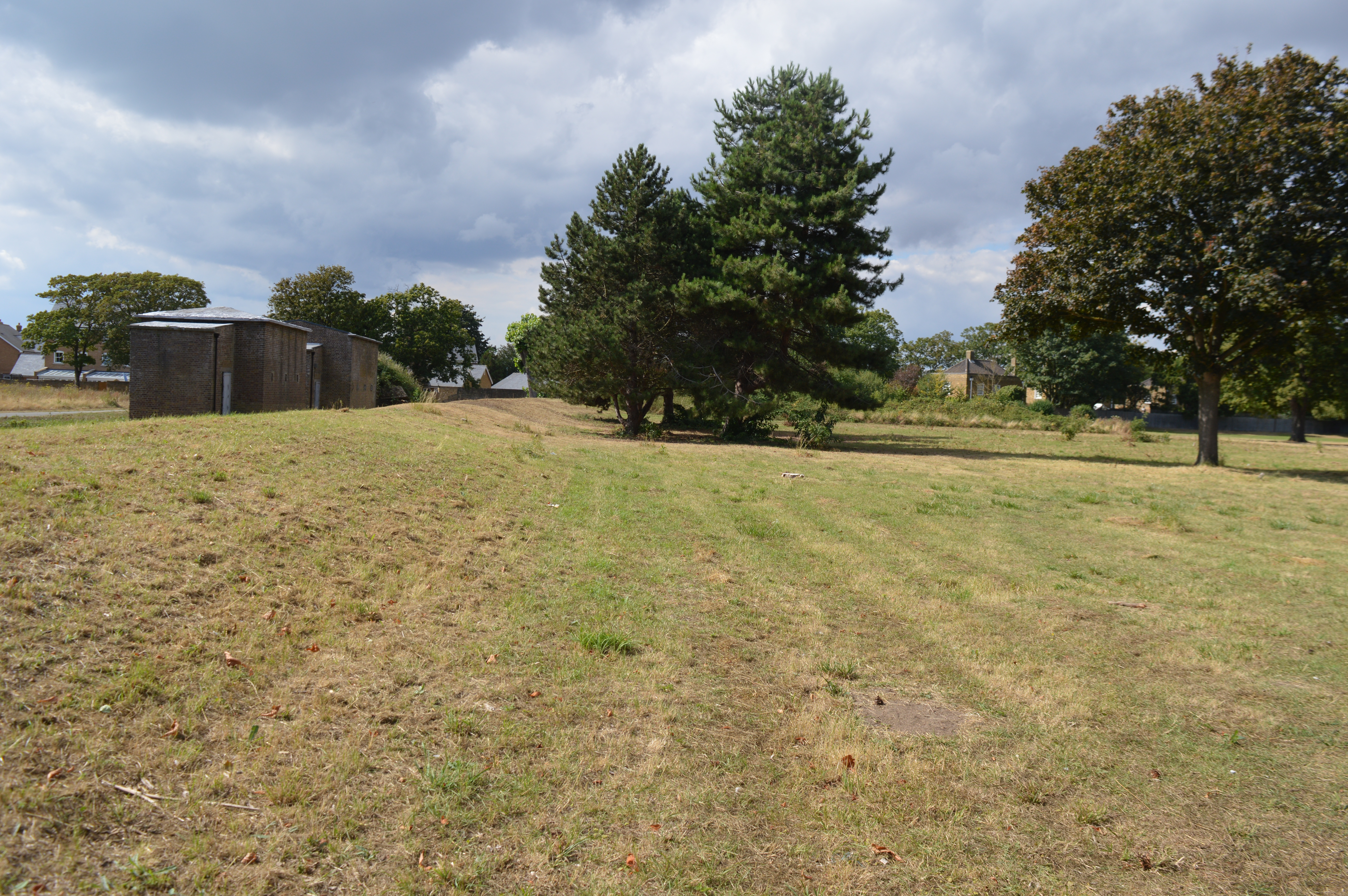 Danish Camp is an Iron Age fortified settlement in Shoeburyness, Essex. It is called Danish Camp because it was wrongly believed to have been built by the Danish Viking leader, Haesten. The site is part of the Gunners Park and Shoebury Ranges Nature Reserve, managed by the Essex Wildlife Trust.